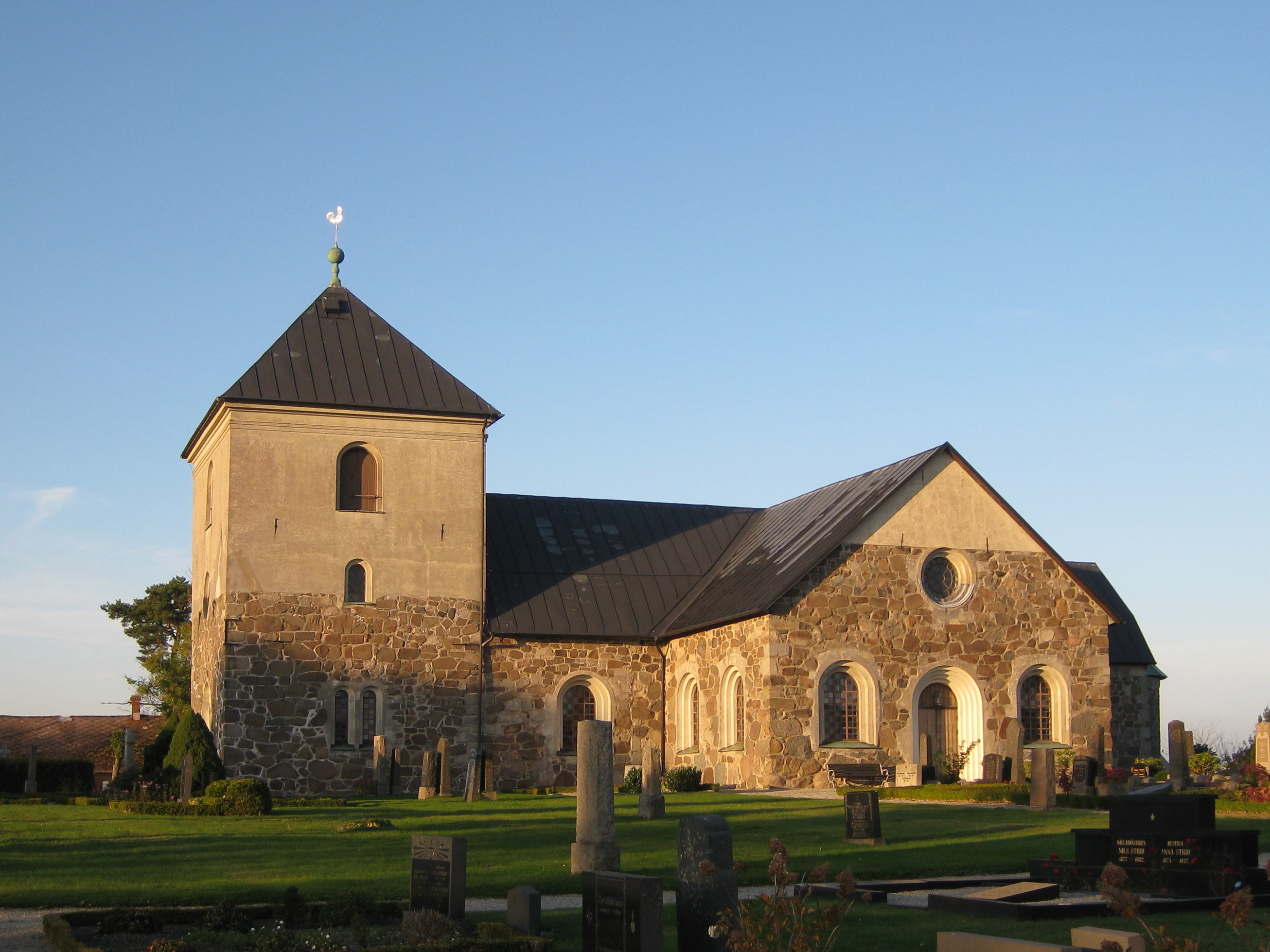 Östraby church, Scania, Sweden